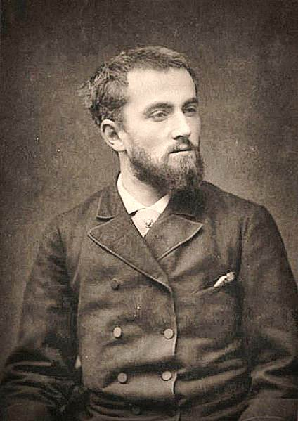 Photograph of French painter Norbert Gœneutte (1854-1894)